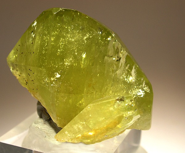 Brazilianite Locality: Conselheiro Pena, Doce valley, Minas Gerais, Southeast Region, Brazil (Locality at ) A truly outstanding miniature from THE best and most important find for the species in terms of overall quality, now some 60 years ago. They were brought out by dealer Martin Ehrmann in the 1940s and remain to this day the standard by which contemporary brazilianites are held up to. This is a perfect miniature, complete all around and with breath-taking color and lustre. It is transparent around the edges , and translucent through the thick center. The smaller sidecar crystal is the point via which the larger crystal must have attached to matrix because although that sidecar crystal is contacted, the major crystal is not only pristine but is complete all around (even the bottom) ! This find is recounted in interesting detail in the excellent book by Dr. Peter Bancroft Gem and Crystal Treasures on pages 201-205. 4.4 x 3.5 x 3 cm